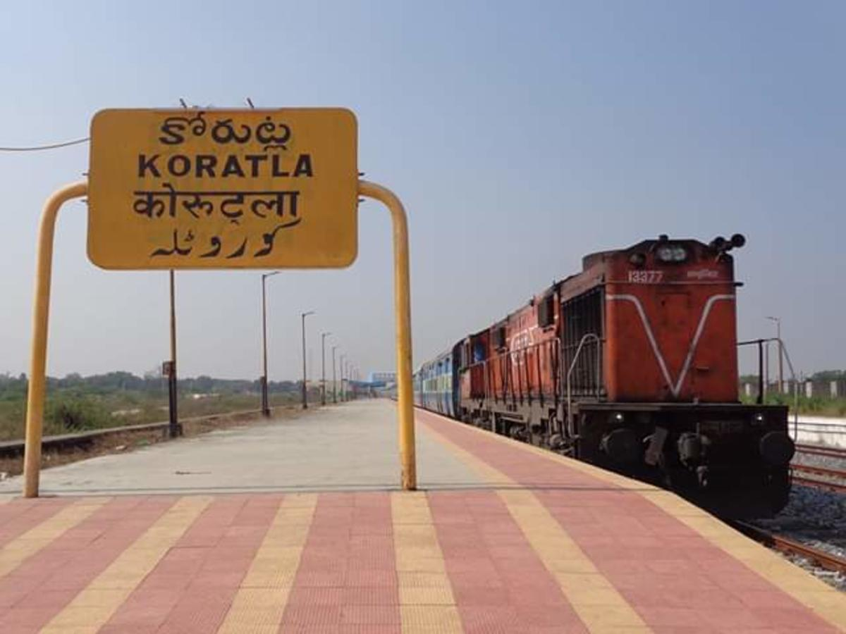 Train No. 57601 Kacheguda - Karimnagar Passenger departing